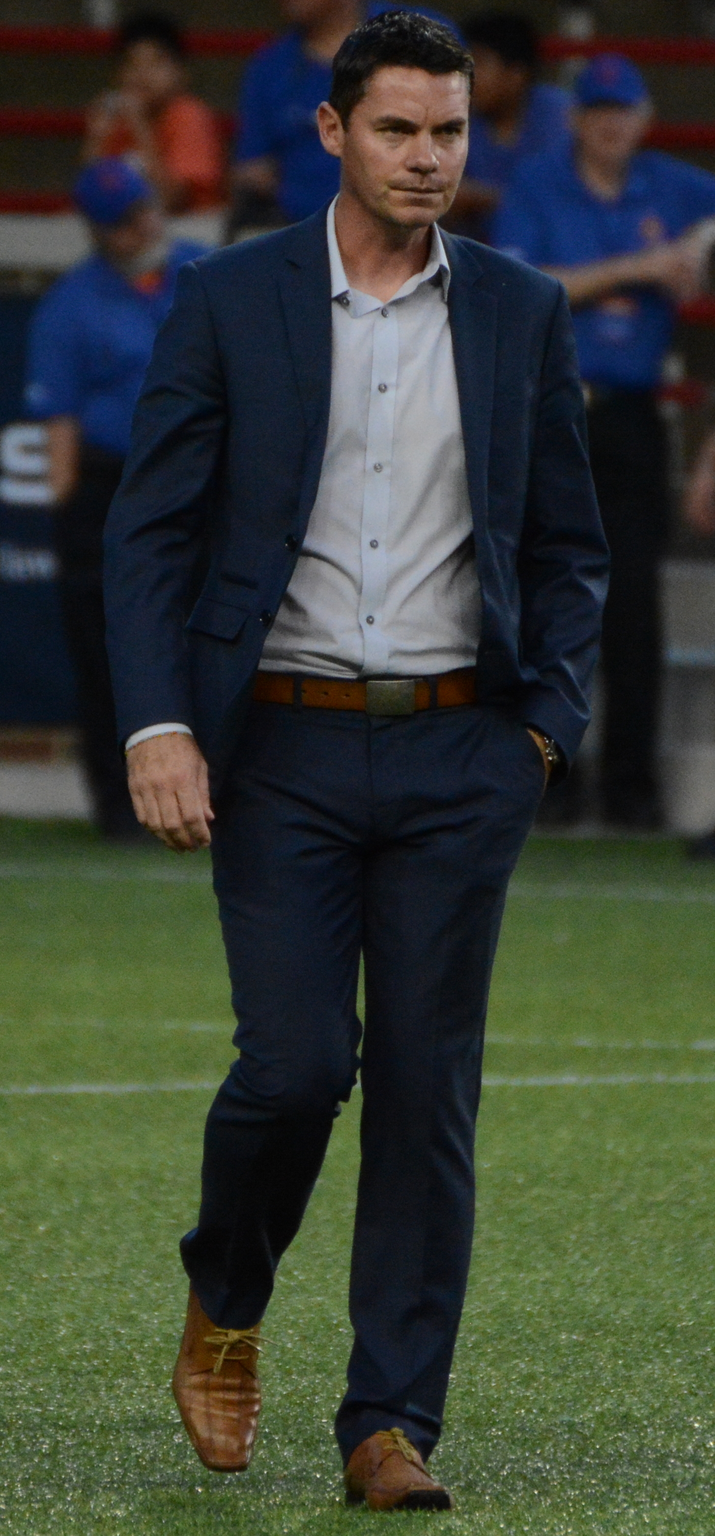 Stuart Dobson, Stuart Campbell, Raoul Voss Taken during a match between FC Cincinnati and Tampa Bay Rowdies at Nippert Stadium in Cincinnati, USA on April 19, 2017.